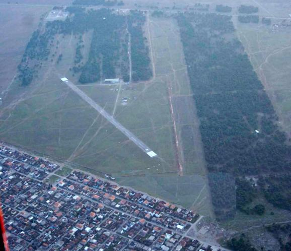 Areal view of the Ćemovsko Polje Airport, near Podgorica, Montenegro.